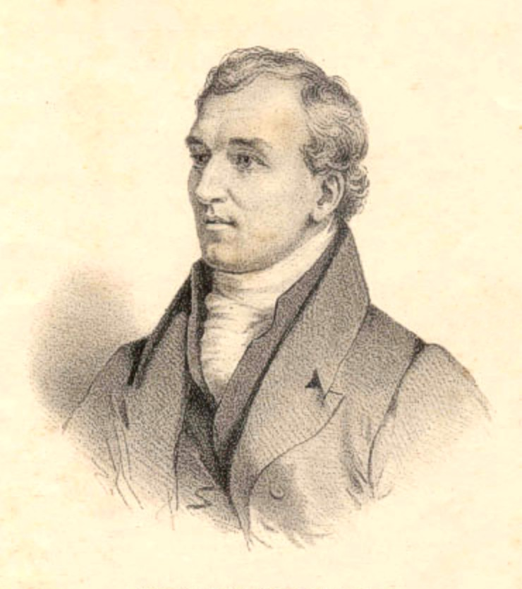 David Douglass (1799-1834), Scottish botanist